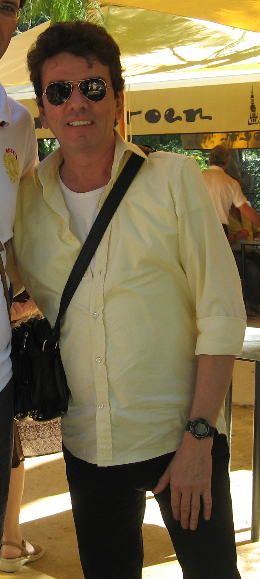 Jaime Urrutia, Spanish musician of Gabinete Caligari pop group